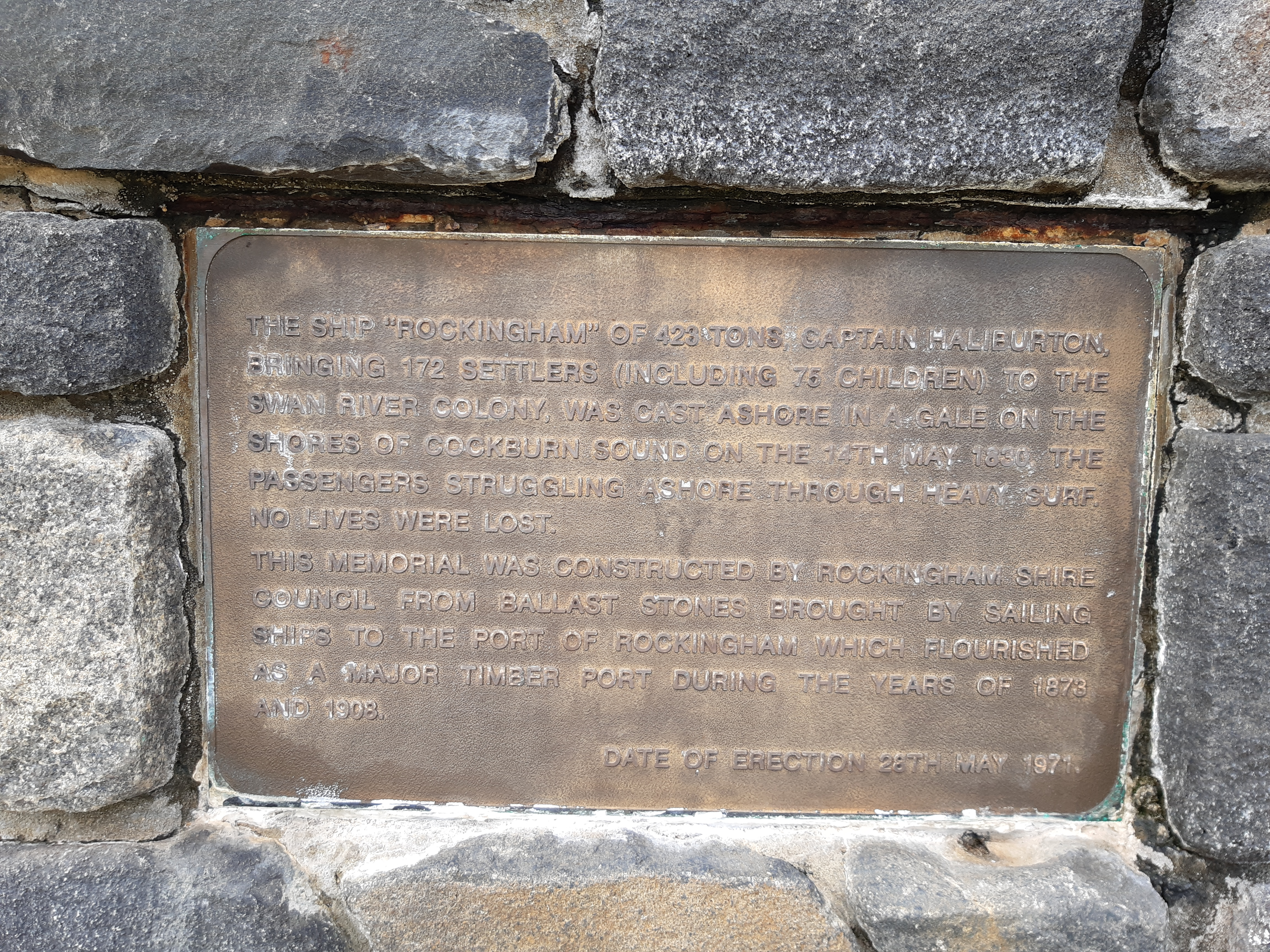 Rockingham Cairn, East Rockingham, Western Australia: Commemorative plaque for the arrival of the ship "Rockingham". It reads: The ship "Rockingham" of 428 tons, Captain Haliburton, bringing 172 settlers (including 76 children) to the Swan River Colony, was cast ashore in a gale on the shores of Cockburn Sound on the 14th May 1830, the passengers struggling ashore through heavy surf. No lives were lost. This memorial was constructed by Rockingham Shire Council from ballast stones brought by sailing ships to the port of Rockingham whjich flourished as a major timer port during the years of 1878 and 1908. Date of erection 28th May 1971